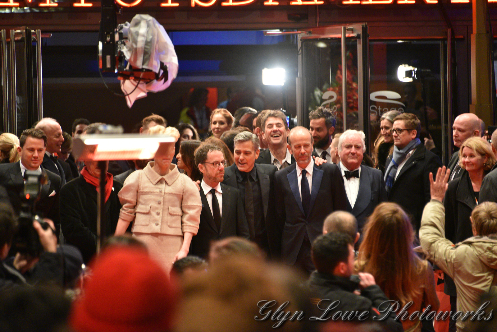 'Hail, Caesar!' Premiere during the 66th Berlinale International Film Festival on February 11, 2016 in Berlin, Germany. February in Berlin is all about film: international stars on the red carpet, enthusiastic fans from around the world – and, above all, some great films. Around 400 films are shown at the Berlinale and tickets are available for everyone, because the Berlinale is the world’s largest public film festival. For ten days, the festival features films that inspire, touch and let you discover new worlds. More Photos At